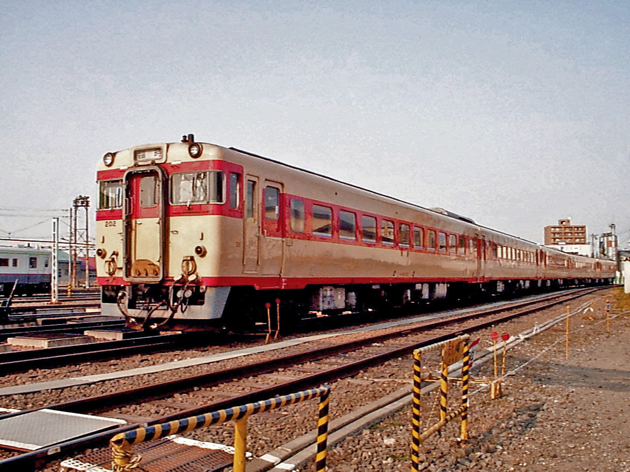 The JNR 58 Series DMU, Kiha 56 in Naebo Workshop of Hokkaido Railway Company, Sapporo City Hokkaidō